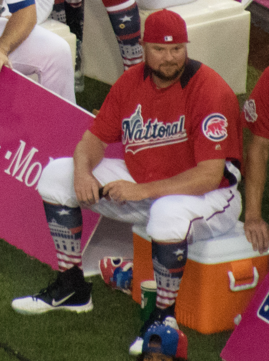 Members of the 2018 National League All-Star Team during the 2018 Major League Baseball Home Run Derby at Nationals Park.